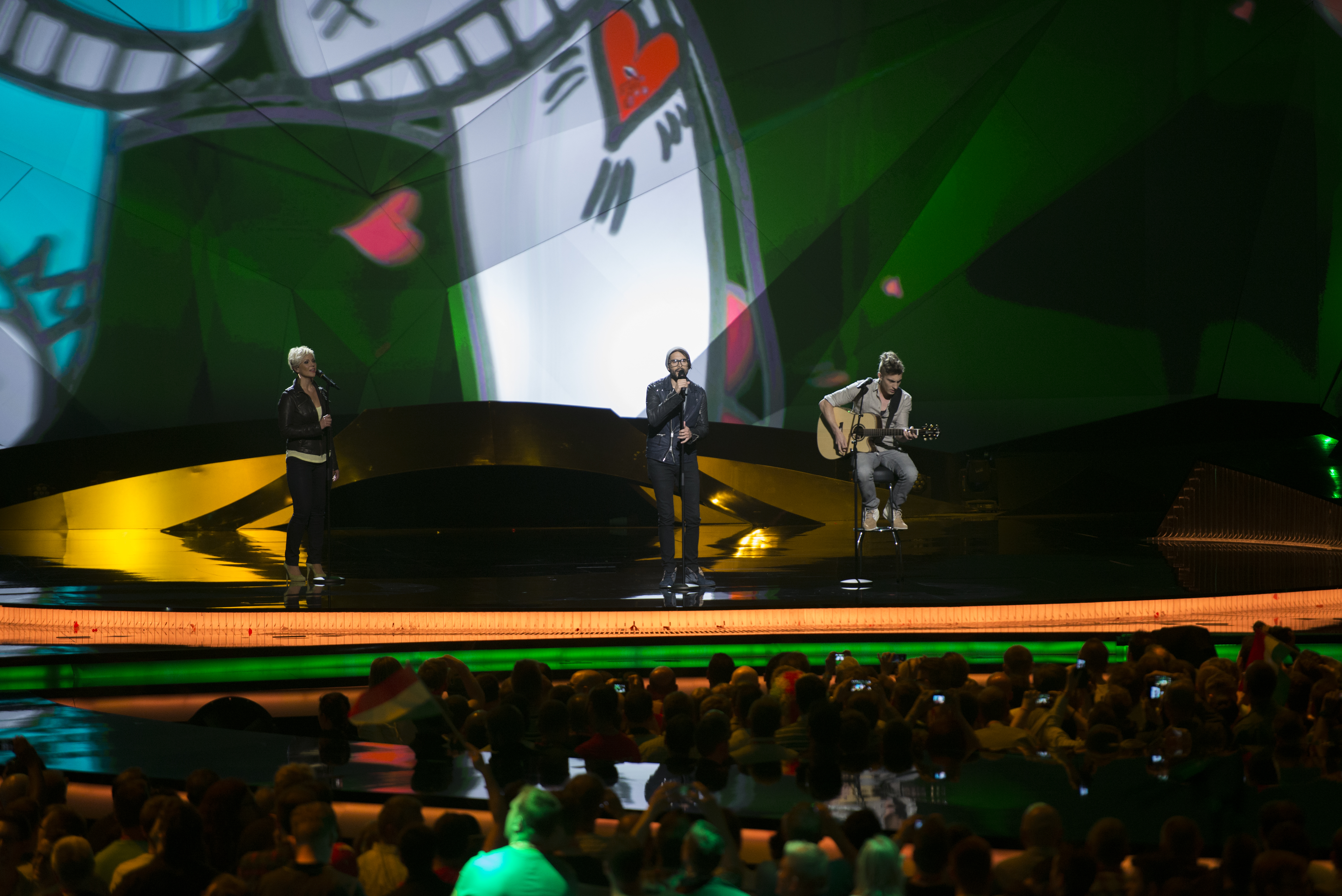 ByeAlex representing Hungary with the song "Kedvesem" (Zoohacker Remix) during the second dress rehearsal of the second semi final of the Eurovision Song Contest 2013 in Malmö. (Help translate this text)